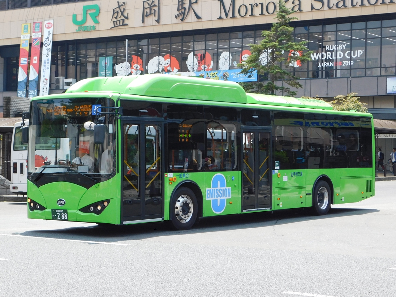 Iwateken kotsu electric bus (BYD K9)